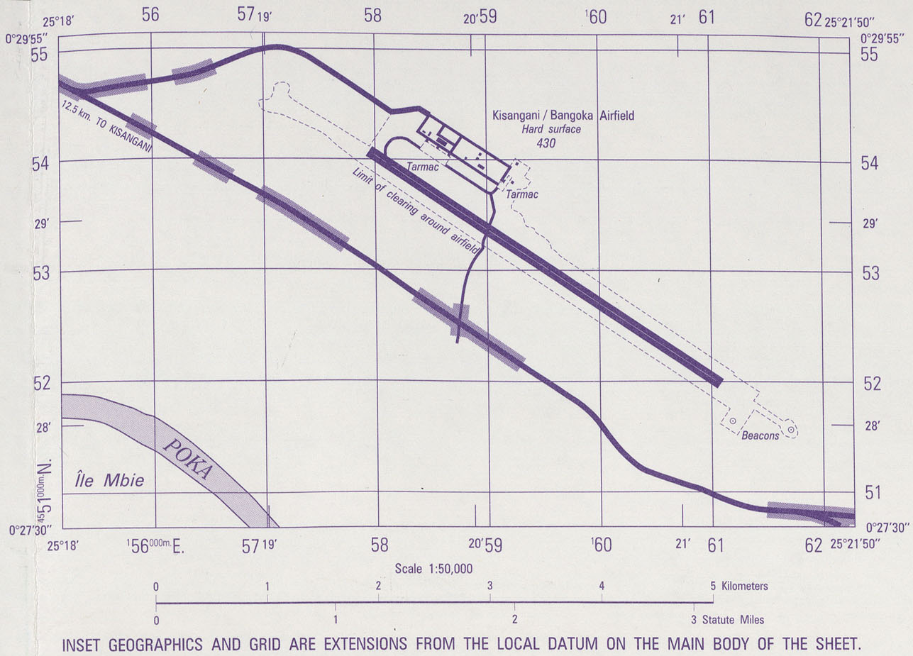 Map of city of Kisangani, Democratic Republic of the Congo, and vicinity